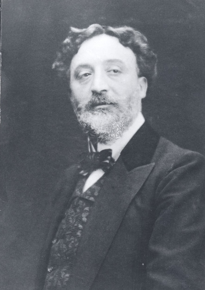 Photograph taken of Hector Guimard in 1907. (Smithsonian Institution - Cooper-Hewitt Smithsonian Design Museum)